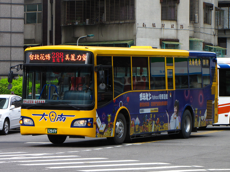 2009 HINO RK8JRSA